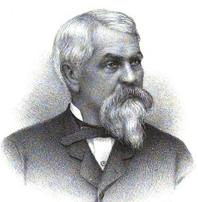 Lorenzo De Medici Sweat (Maine Congressman)